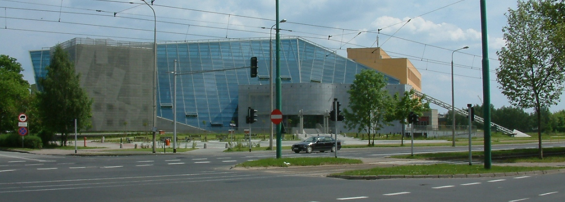 Collegium Stomatologicum of Poznan University of Medical Sciences architect: Grzegorz Sadowski